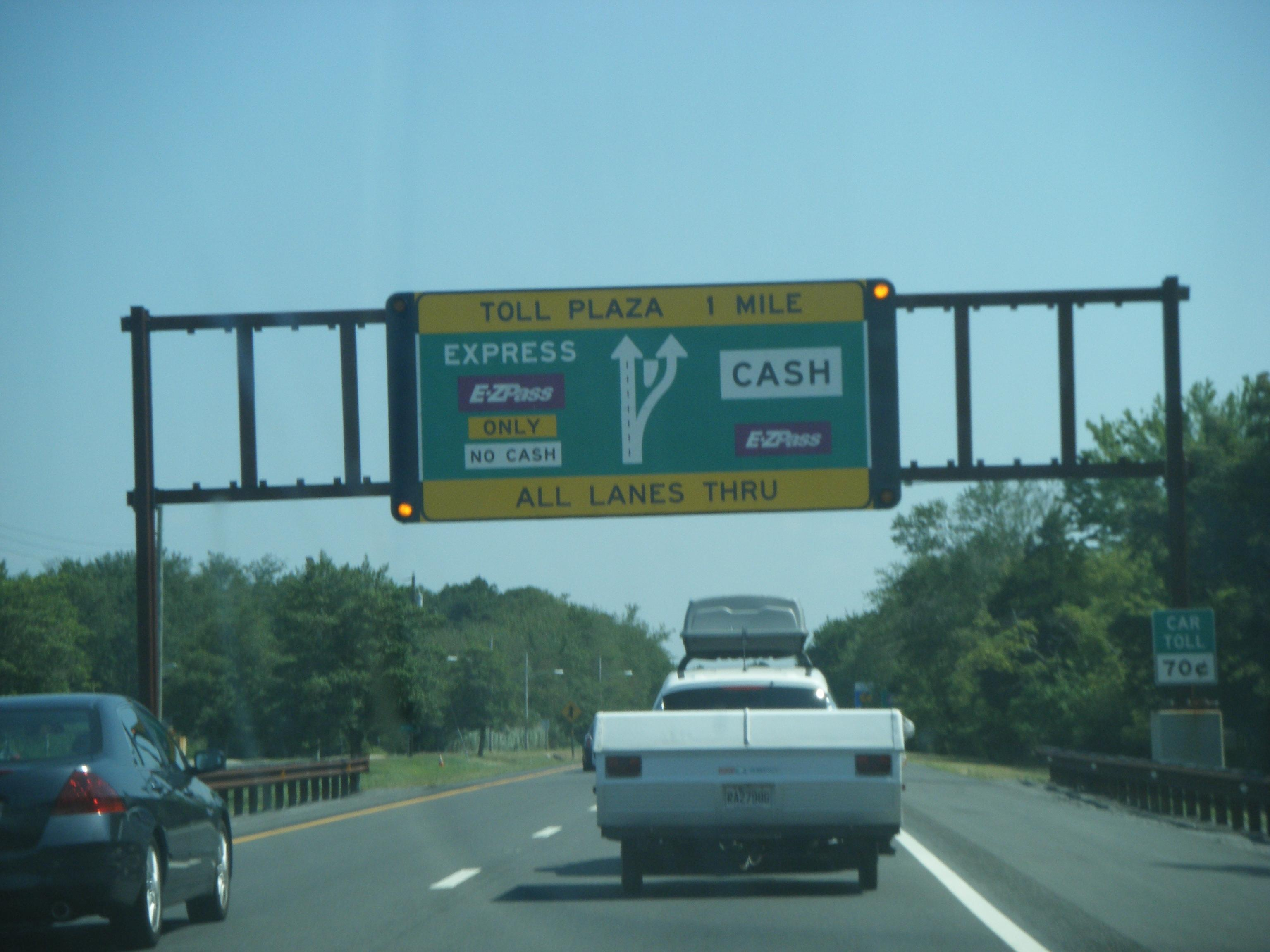 Northbound Garden State Parkway in Dennis Township, New Jersey 1 mile from the Cape May Toll Plaza in Upper Township, New Jersey